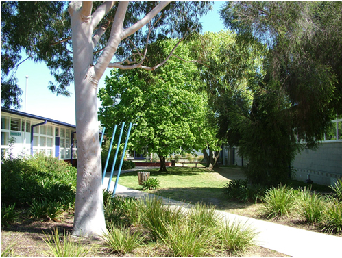 The main/administration courtyard at Fawkner Secondary College